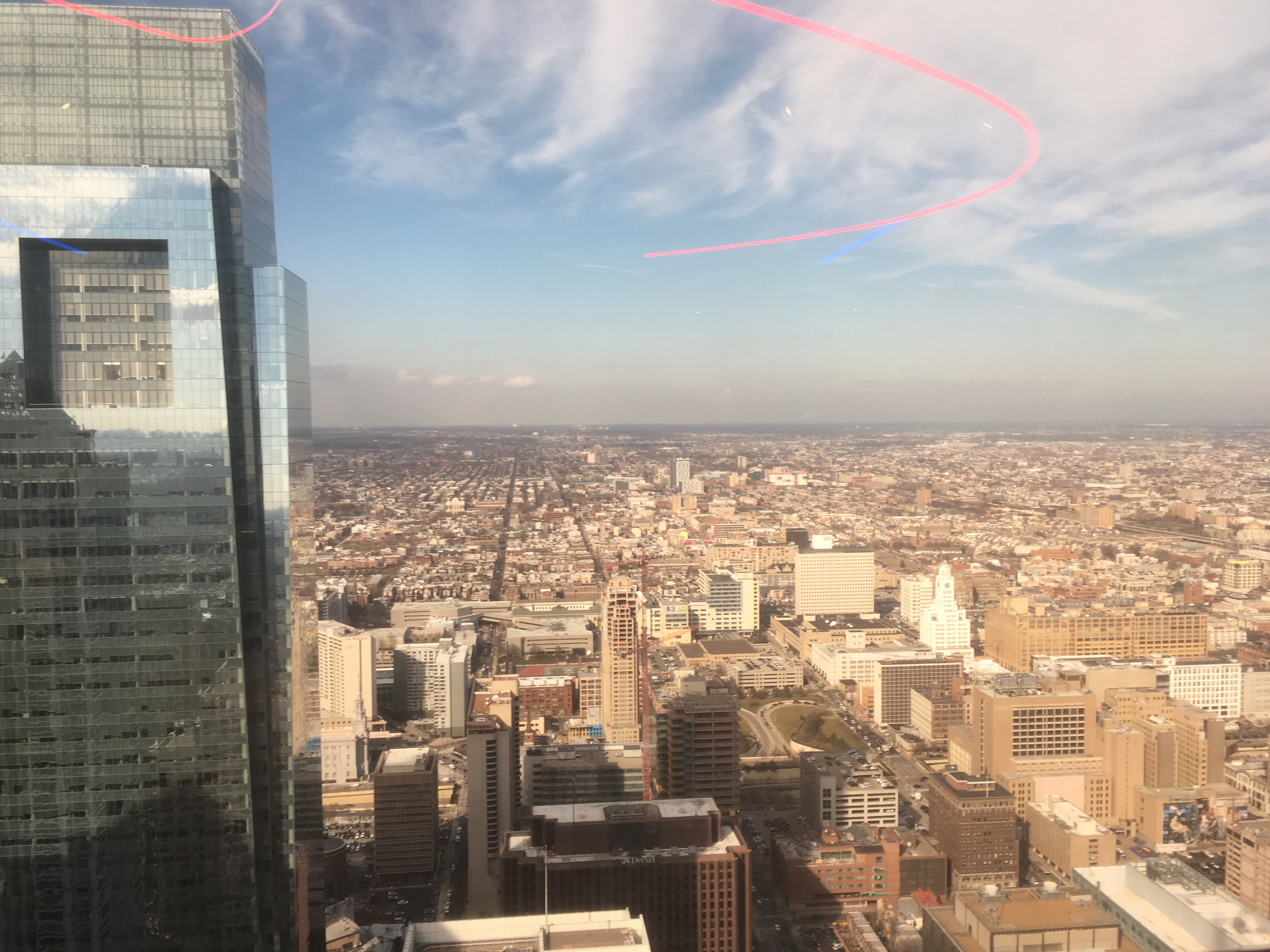 A view of North Philadelphia from the One Liberty Observation Deck. The Comcast Center is visible to the left in the foreground.